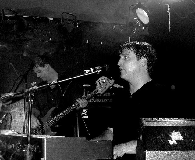 The Twilight Singers at Leicester's Princess Charlotte, 2006